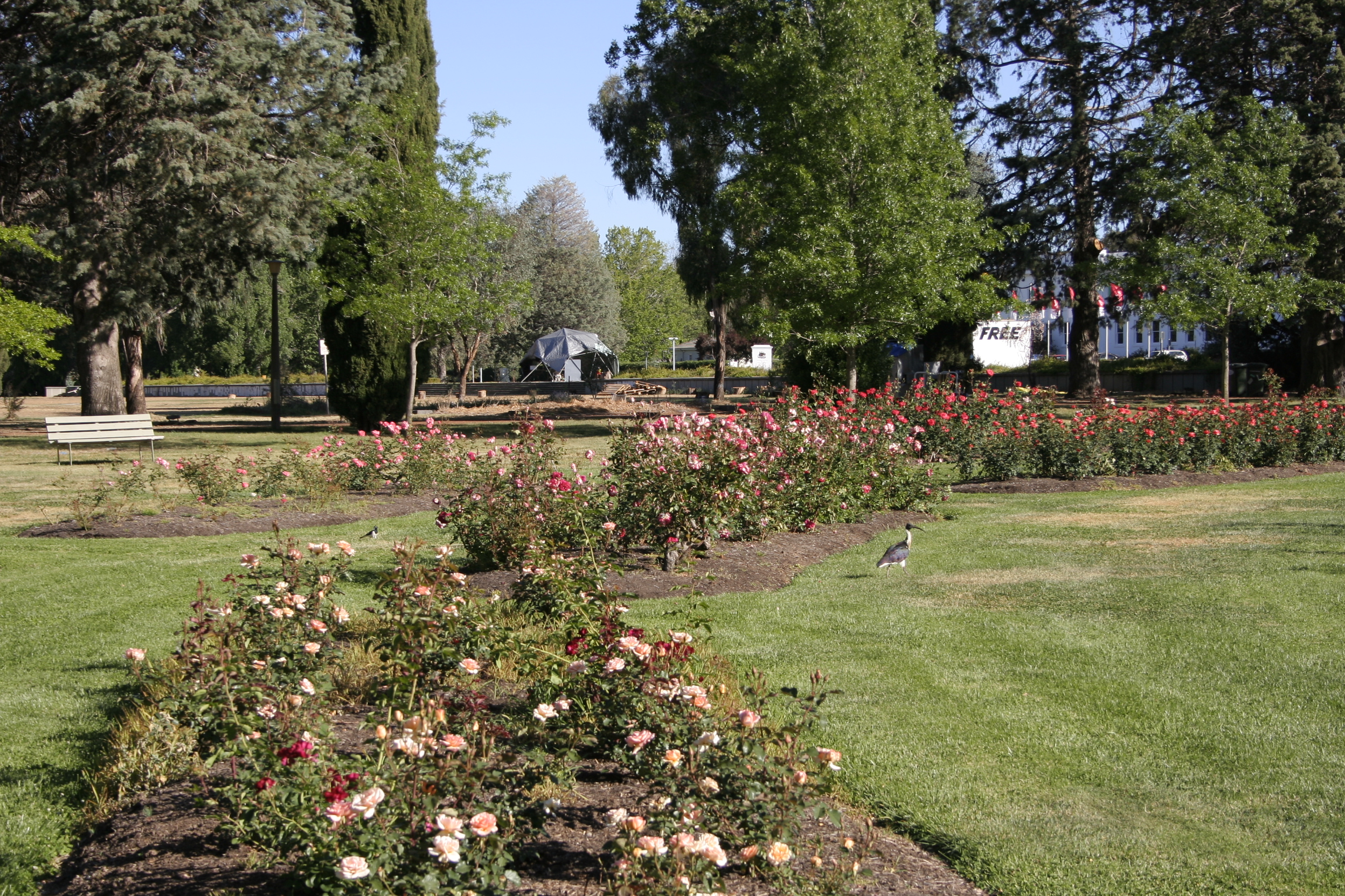 Aboriginal Embassy, Old Parliament House, roses and bird